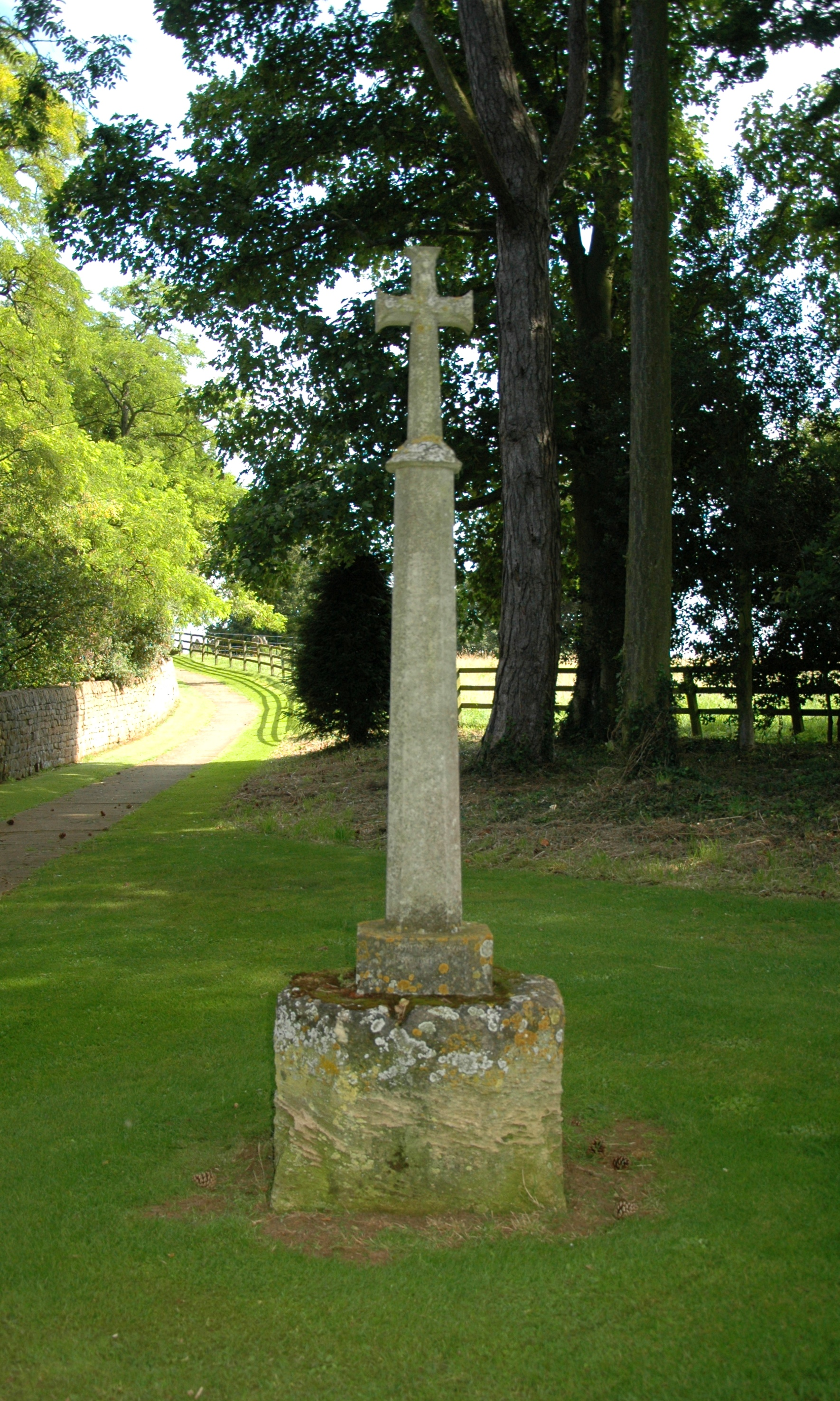 Preaching cross, Over Worton, Oxfordshire. The base is Medieval; the shaft and cross were added after the First World War as a war memorial